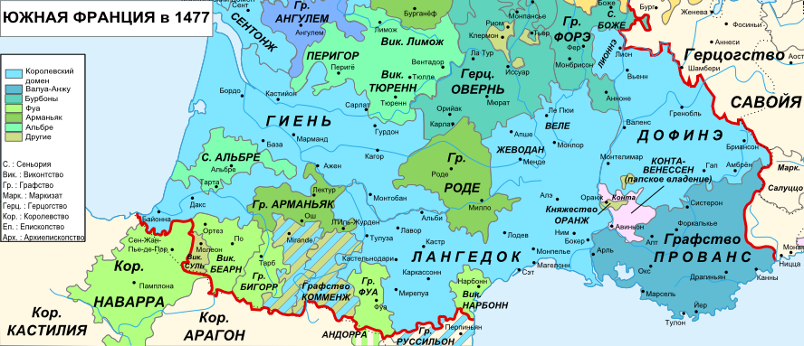 Map of the France in 1477.